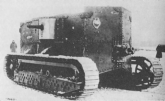 A picture of the prototype Holt Gas-Electric Tractor, the first tank built in the United States, by the Holt Manufacturing Company.